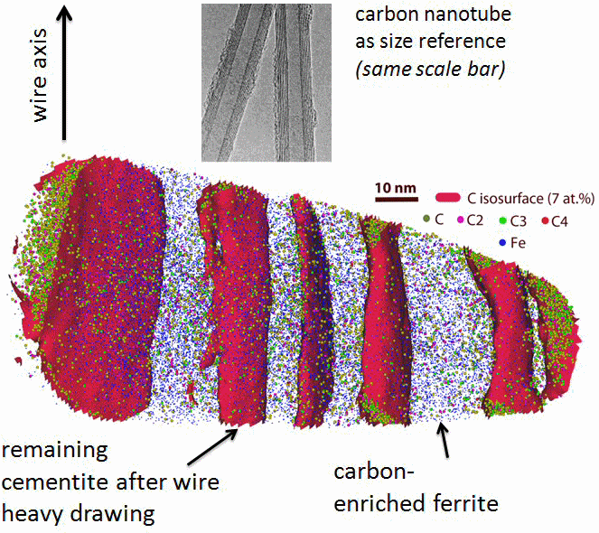 3D carbon atomic maps of a hypereutectoid pearlitic steel wire after heavy cold drawing measured by 3D atom probe tomography. The carbon atoms are shown in red. Different colors indicate different carbon clusters obtained from the 3D atom probe tomography. Iron atoms are not displayed. The carbon nanotube is shown as size reference. Other information 3D carbon atomic maps of a hypereutectoid pearlitic steel wire after heavy cold drawing measured by 3D atom probe tomography. The carbon atoms are shown in red. Different colors indicate different carbon clusters obtained from the 3D atom probe tomography. Iron atoms are not displayed. The carbon nanotube is shown as size reference.